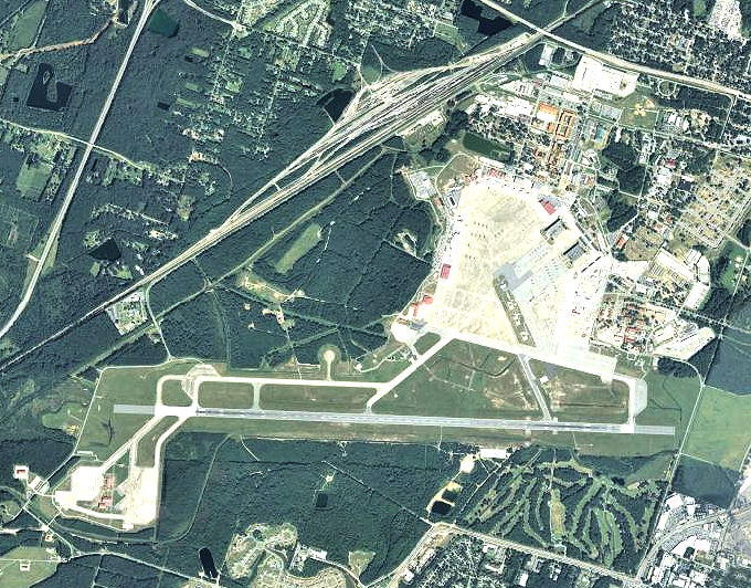 USGS digital orthophoto of Hunter Army Airfield in Georgia.